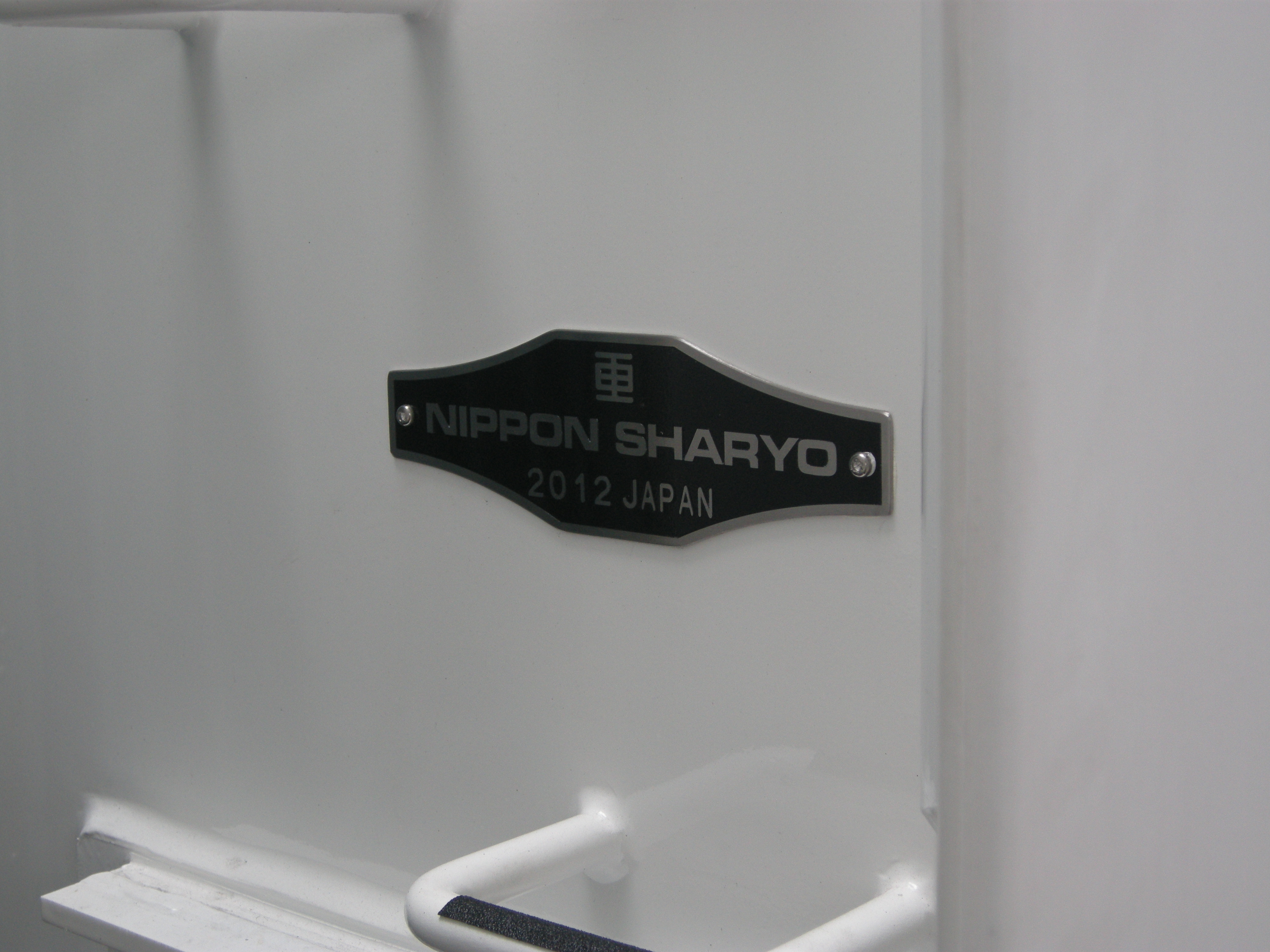 Nippon Sharyo Nameplate on Taiwan Railway TEMU2000 series.